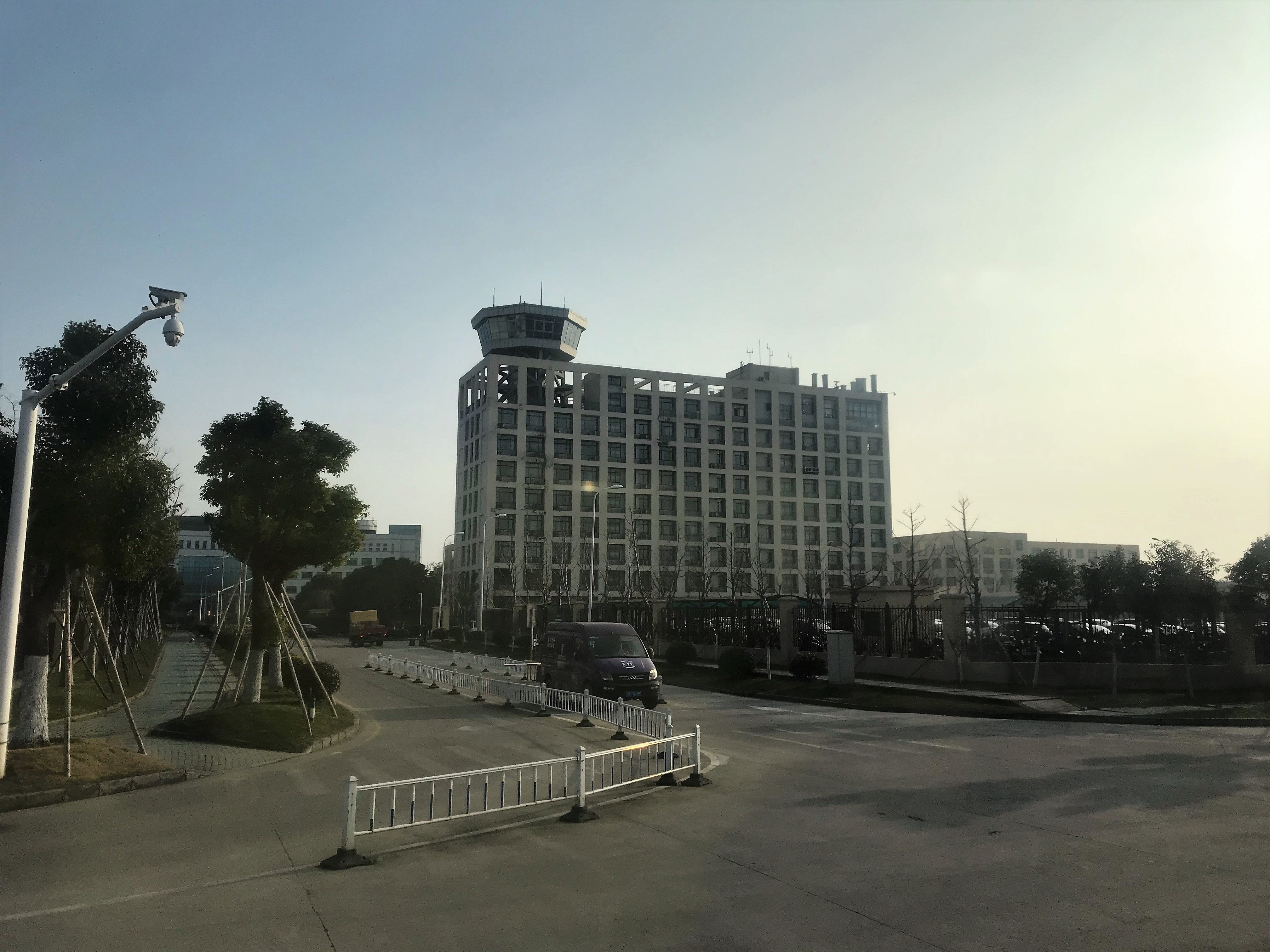 Located in Jingjiang